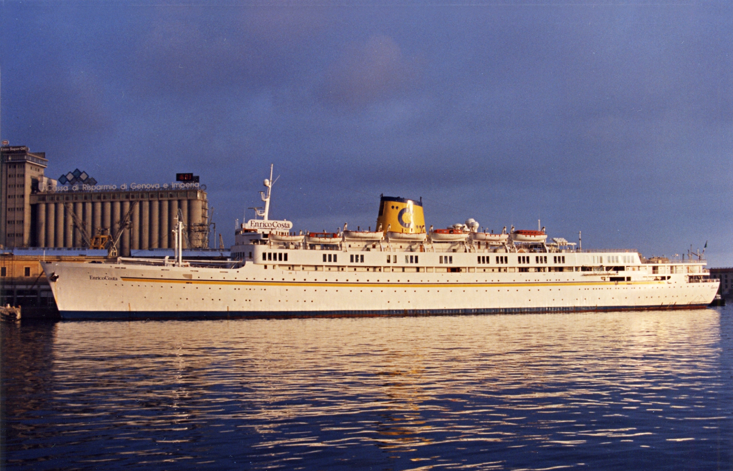 The cruise ship Enrico Costa moored at Genoa on November 22, 1992.